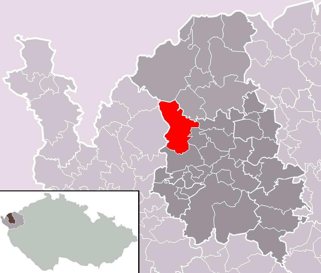 Location of Krajková municipality within Sokolov District and administrative area of Sokolov as a Municipality with Extended Competence.